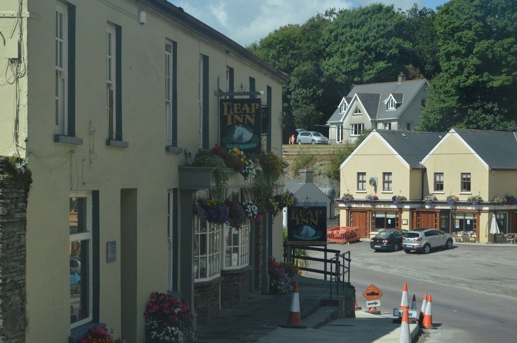 Leap Inn